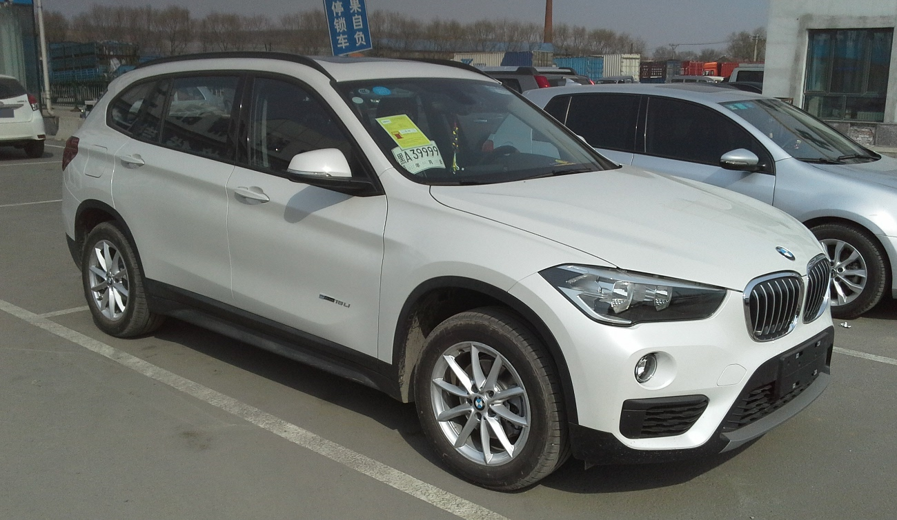 BMW X1 F49 Li photographed in Harbin, Heilongjiang province, China.